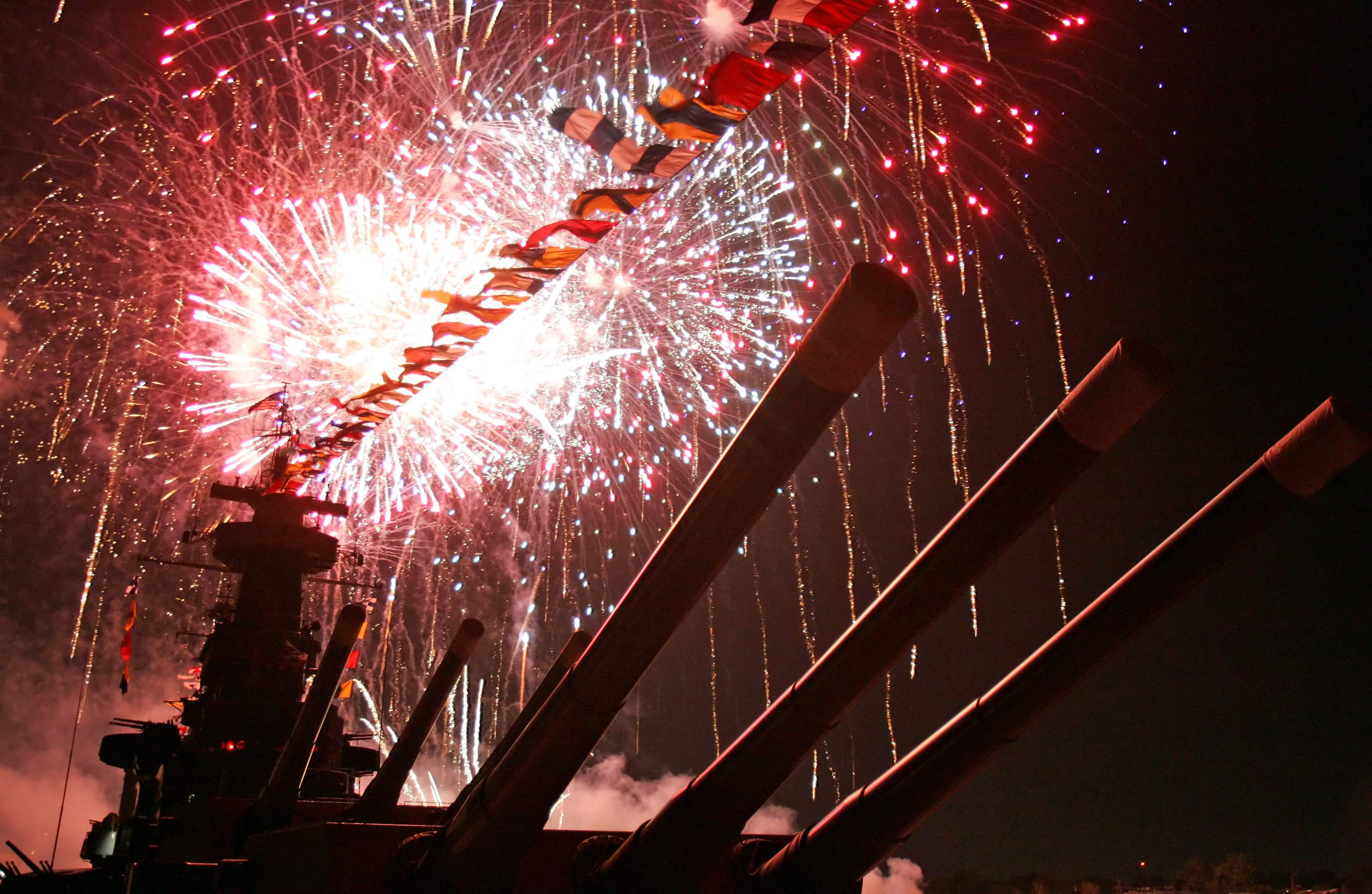 Fireworks illuminate the skies over battleship USS North Carolina (BB-55) capping week long celebrations surrounding the commissioning the newest Virginia-class nuclear attack submarine USS North Carolina (SSN-777) on 3 May 2009. (Text from